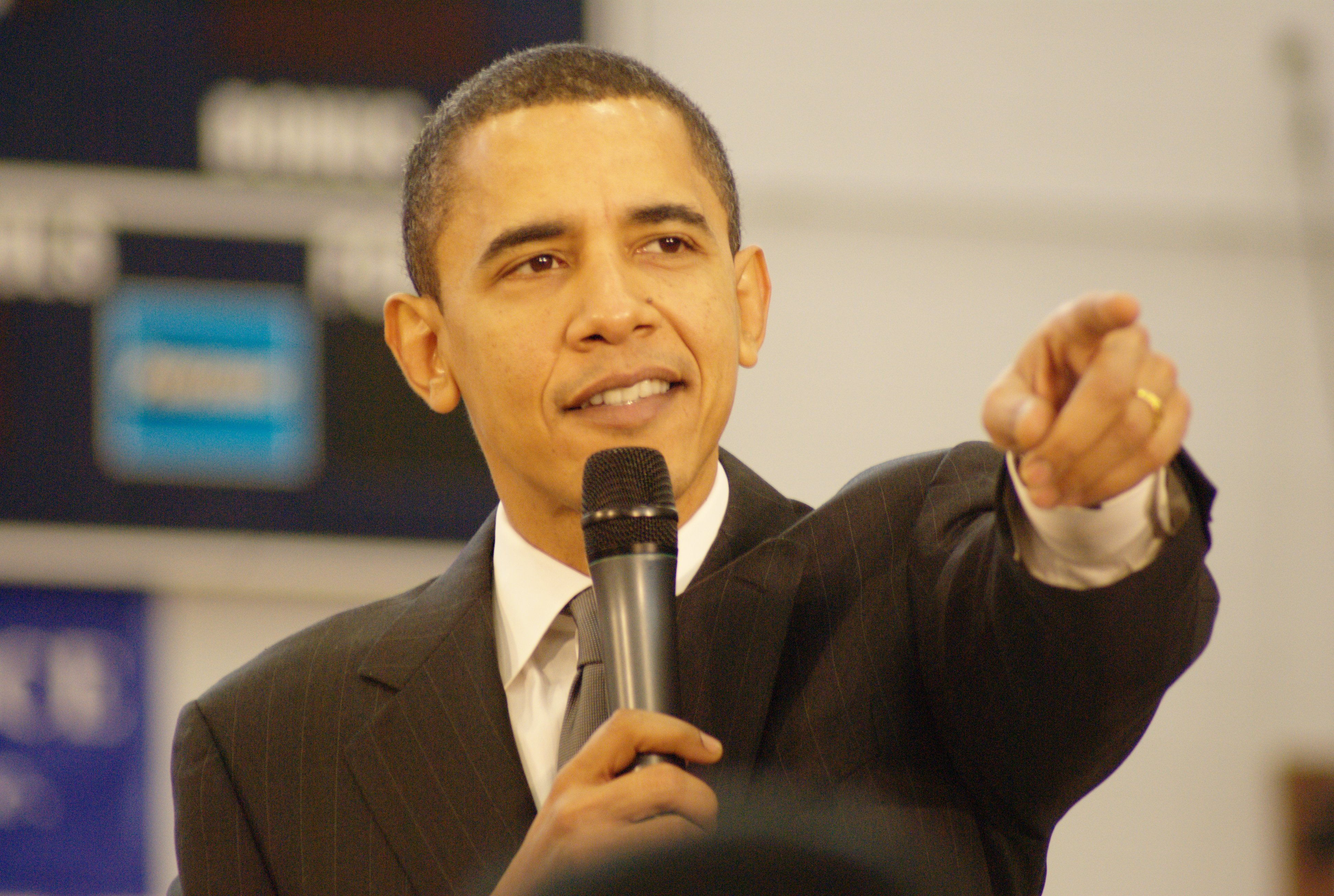 Senator Barack Obama campaigning in New Hampshire.